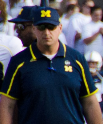 University of Michigan football graduate assistant Adam Stenavich before the game vs. Penn State.